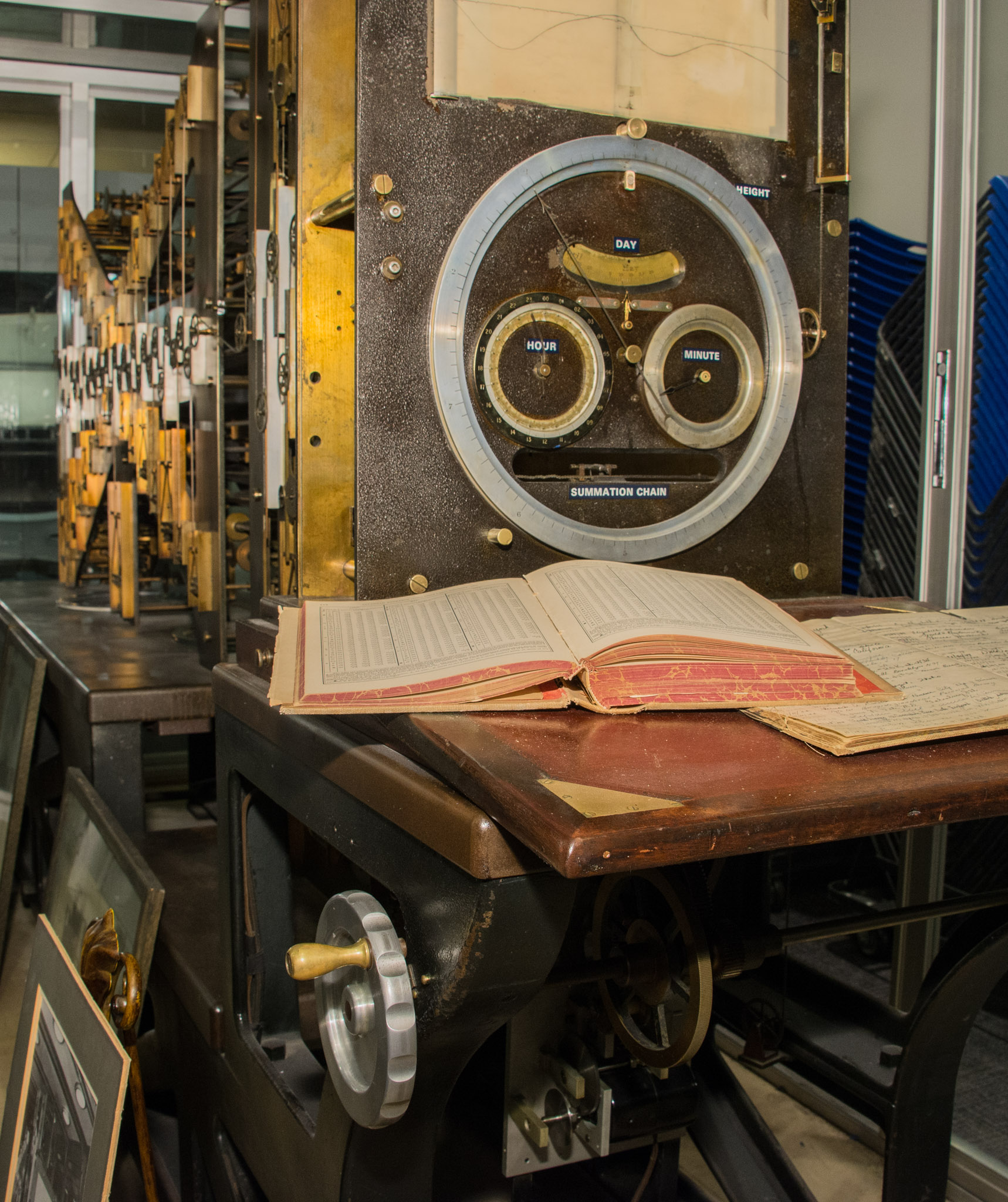 Tide Predicting Machine No. 2 is a special purpose mechanical analog computer for predicting the height and time of high and low tides. When the machine was routinely used, the operator would sit at the desk and turn the crank on the left, which powered the machine. Mechanical components, partially visible on the left, computed the height of tides. These were displayed on the paper tide curve visible at the top right and on the dial below the paper.The U.S. government used Tide Predicting Machine No. 2 from 1910 to 1965 to predict tides for ports around the world. The machine, also known as “Old Brass Brains,” uses an intricate arrangement of gears, pulleys, chains, slides, and other mechanical components to perform the computations.A person using the machine would require 2-3 days to compute a year’s tides at one location. A person performing the same calculations by hand would require hundreds of days to perform the work. The machine is 10.8 feet (3.3 m) long, 6.2 feet (1.9 m) high, and 2.0 feet (0.61 m) wide and weighs approximately 2,500 pounds (1134 kg). The operator powers the machine with a hand crank.